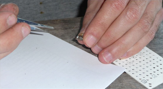 Photo of a snail Novisuccinea chittenangoensis, that is marked with a number for monitoring the population.